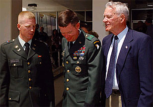 A photo of three generations of U.S. Army OCS graduates within the Schloesser family: (L to R) 2nd Lt. Ryan Schloesser, then-Brigadier General Jeffrey Schloesser, and Lt. Colonel Kenneth Schloesser (USA, retired).